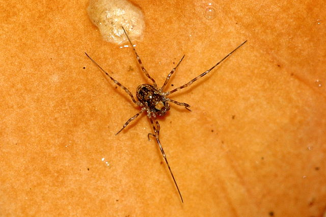 Juvenile of Platybunus pinetorum 50°15′20″N 5°59′58″E / 50.25556°N 5.99944°E